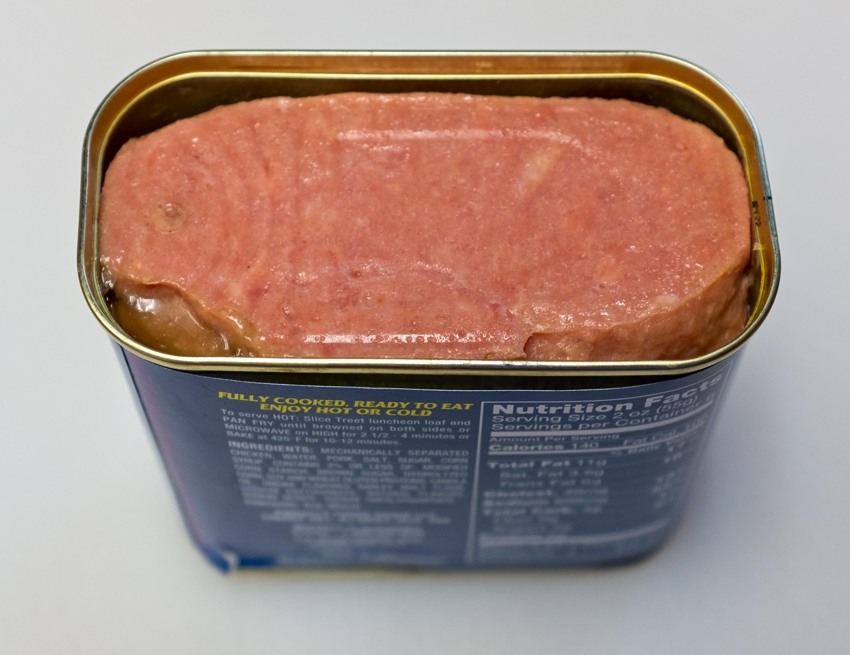 Armour Star Treet in a can, just opened. It is like Spam, but more finely ground, and the ingredients are a little different